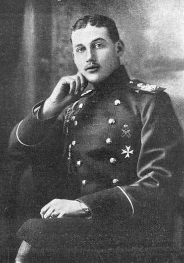 Prince Konstantin Konstantinovich